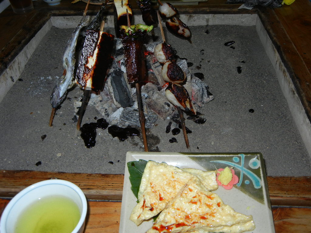 Takamori-Dengaku. 高森田楽, Takamori.